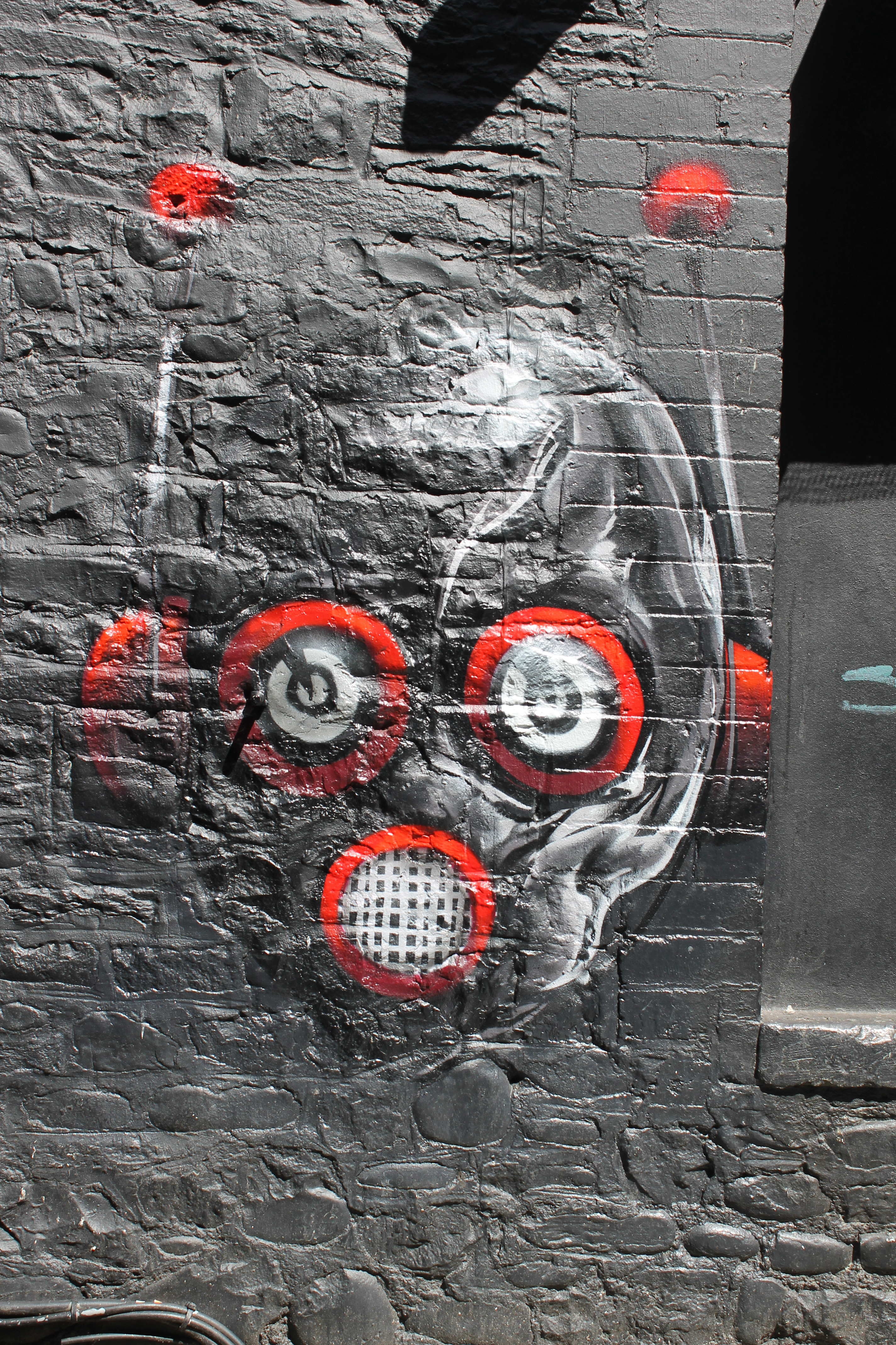 Mural at Womanby St, Cardiff, Wales by Mark James in celebration of Gwenno Saunders and her album 'Y Dydd Olaf' ('The Last Day') which was based on a sci-fi Welsh novel of the same name by Owain Owain written 1967-8 and published by Gwasg Gomer in 1976.